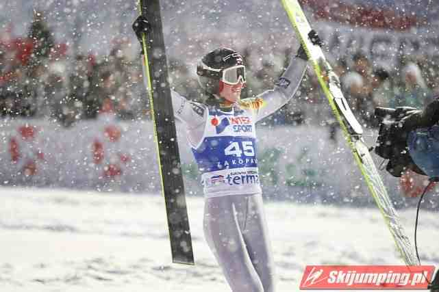 Kamil Stoch during sunday competition of FIS Ski Jumping World Cup in Zakopane, 2011, in which he won.